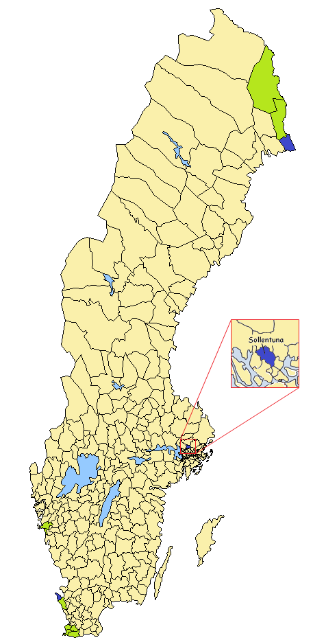 EUR-Sweden